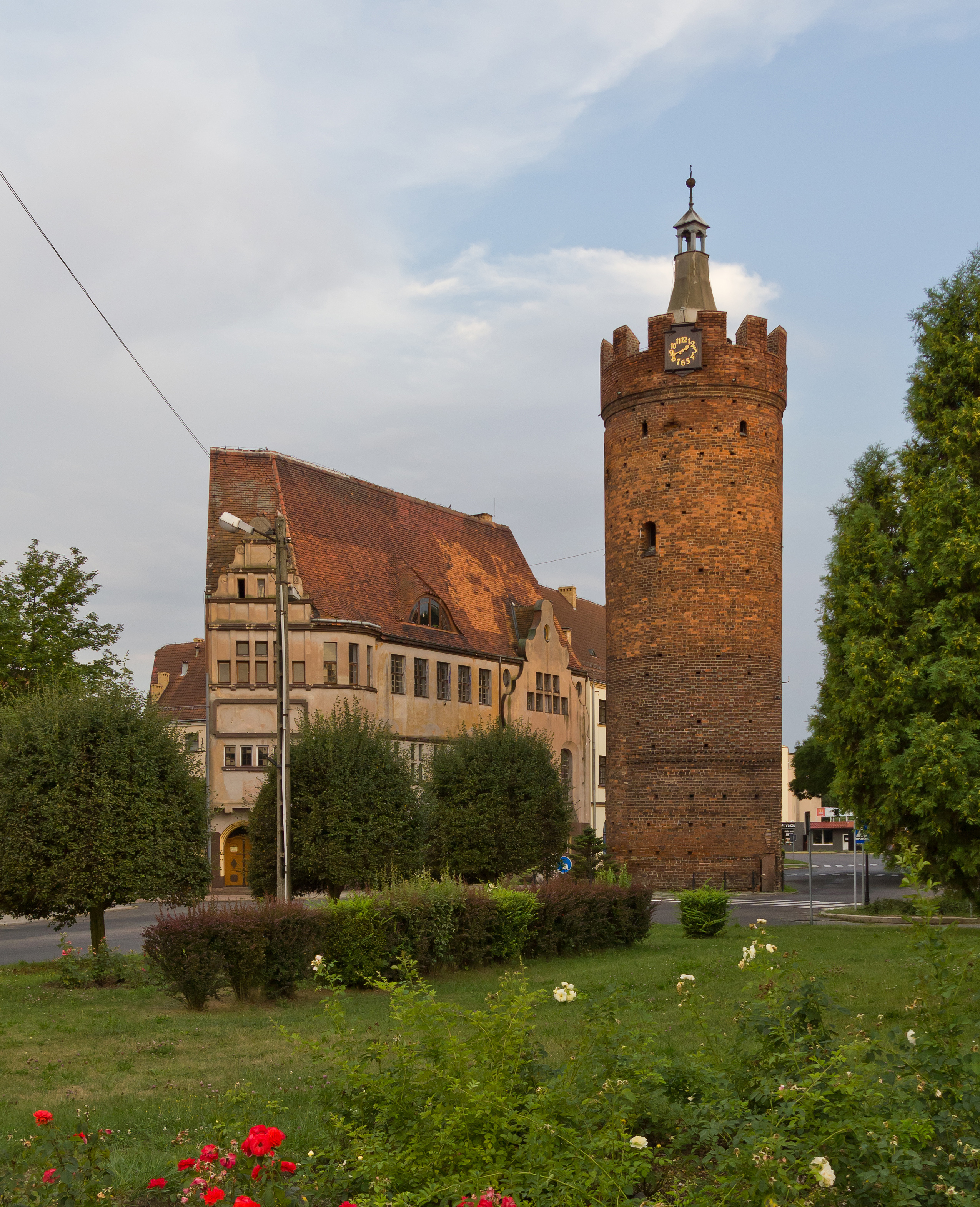 Former city wall tower in Gubin, Lubusz Voivodeship, Poland